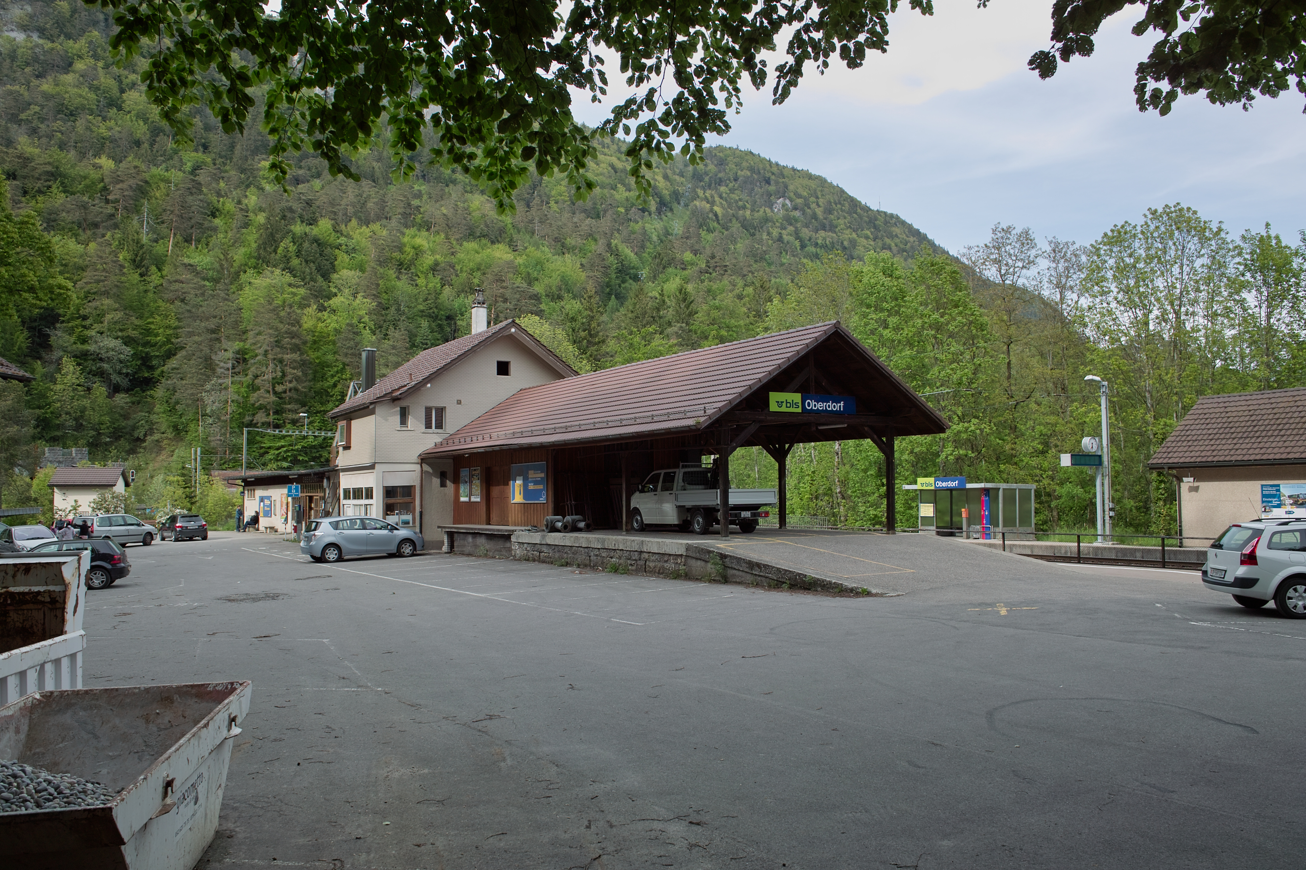 Train station of Oberdorf, canton of Solothurn, Switzerland.